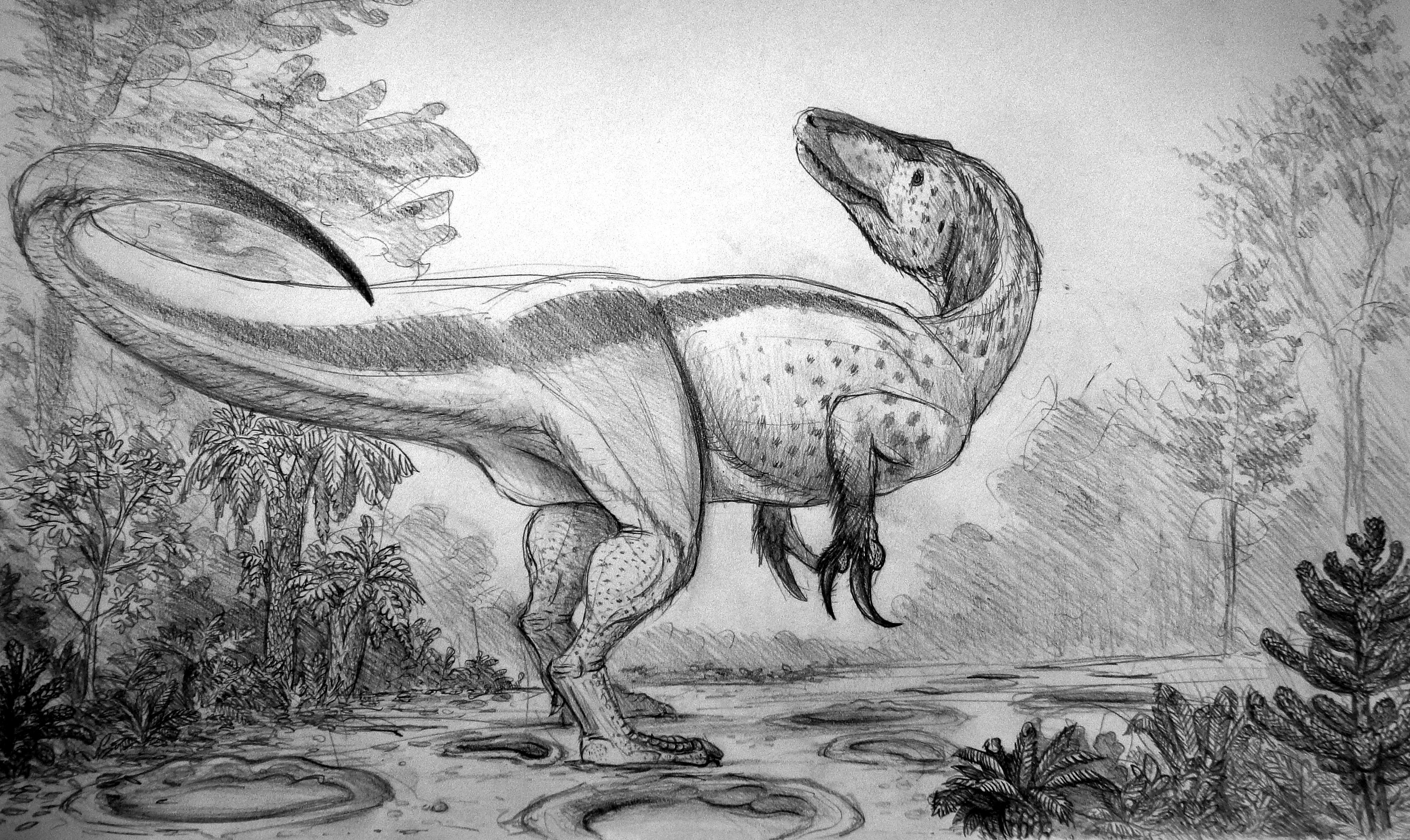 Illustration of Megaraptor tracking a large sauropod. It is restored here based on the hypothesis that Megaraptorans are tyrannosauroids or basal coelurosaurs.